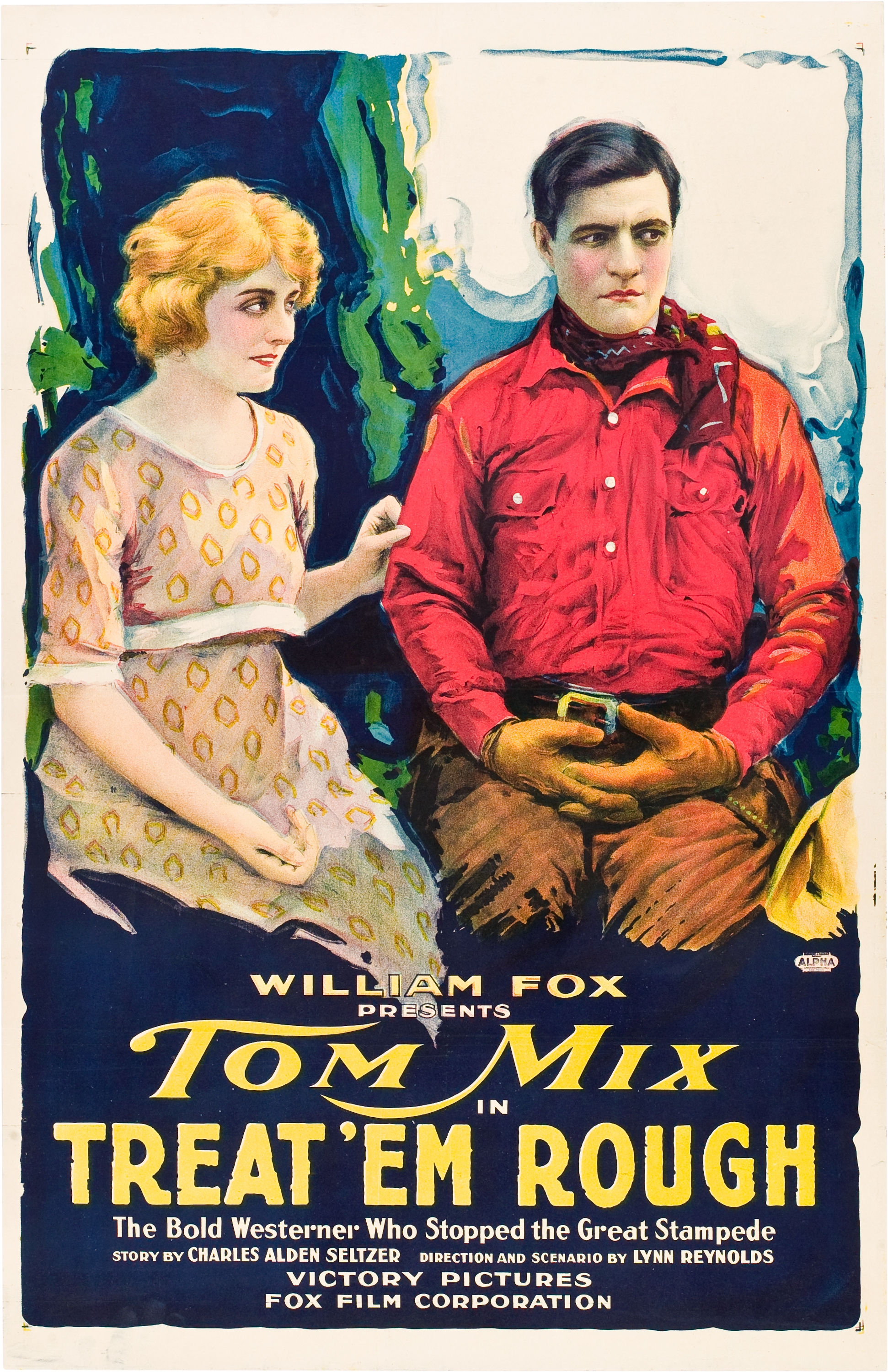 Poster for the American western film Treat 'Em Rough (1919) with Jane Novak and Tom Mix.